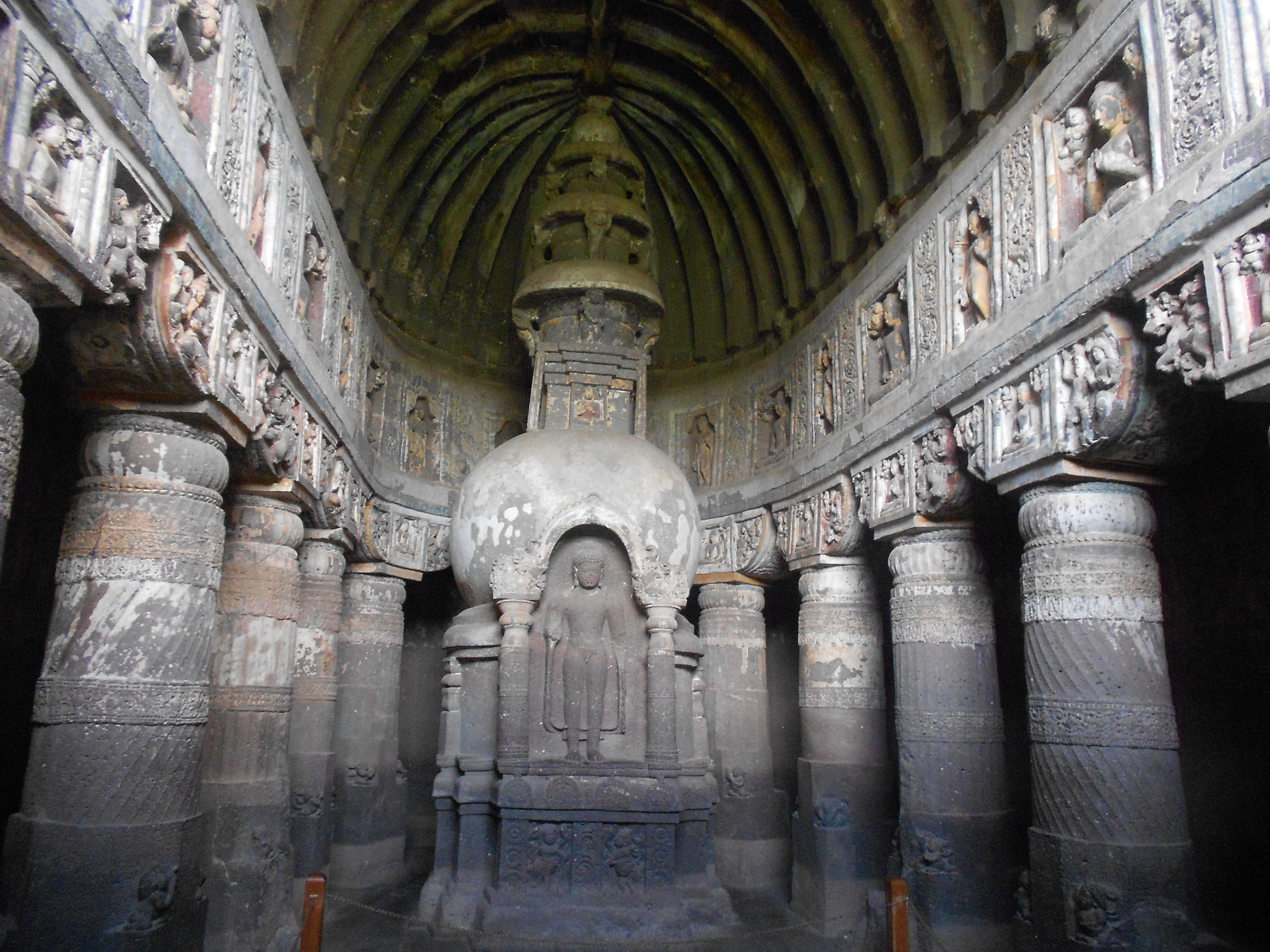 One of the cave made for Meditation in those days itself - in Ajanta Caves